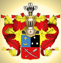 Coat of Arms of Kondratyev family